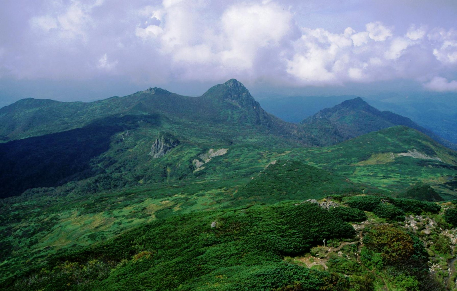 Looking ｗest from Mount Yubari.